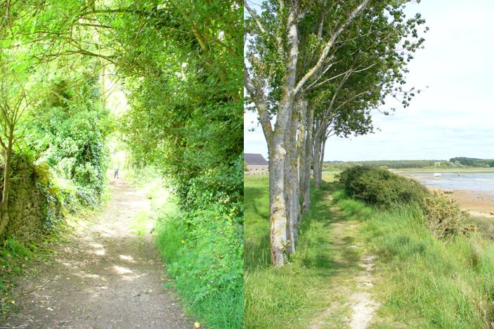 Riantec